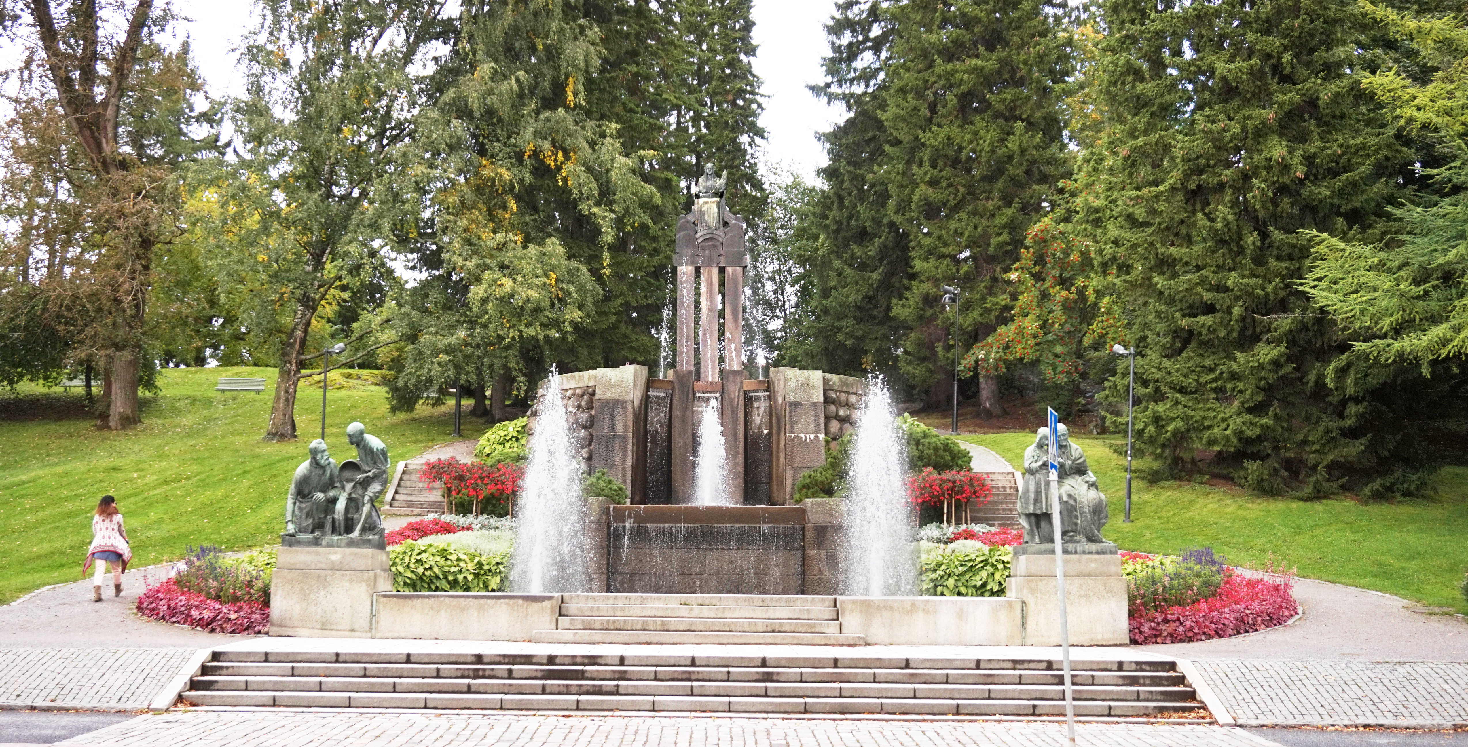 A fountain in Tampere.This photograph was taken with a Sony ILCE-5000